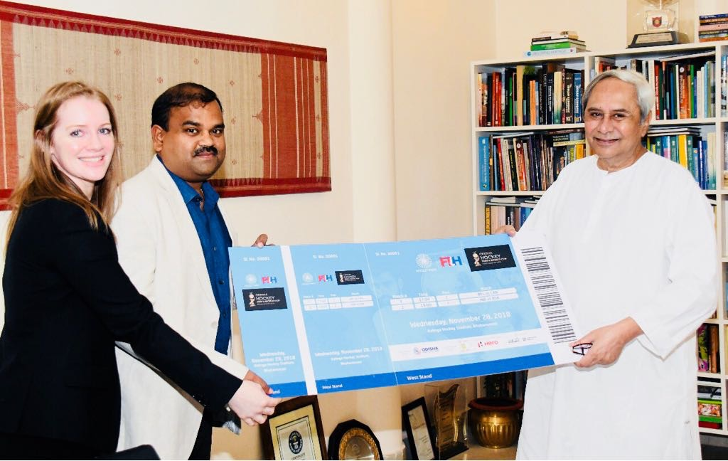 Launch of 2018 Hockey World Cup, Bhubaneswar